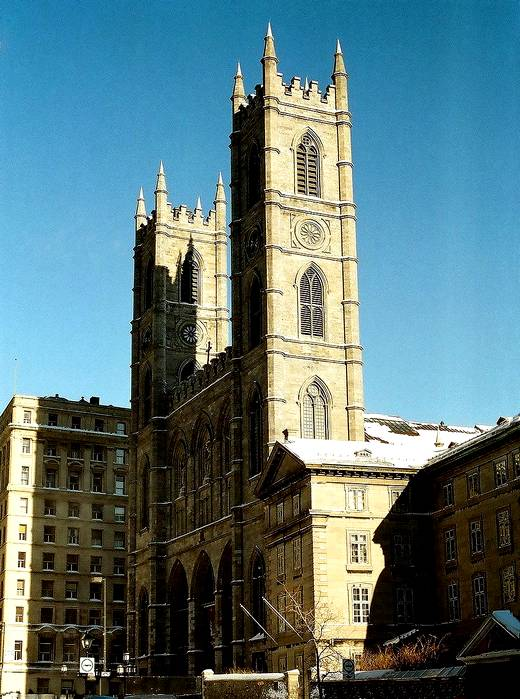 Notre-Dame Basilica, Montreal, Quebec, Canada